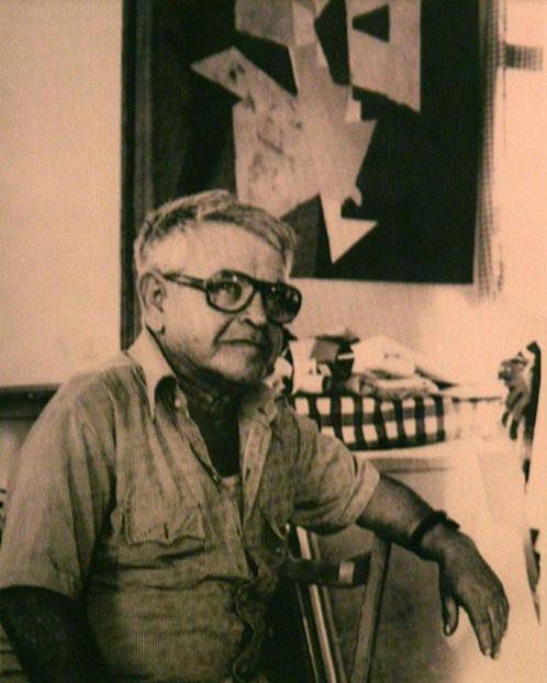 Israeli painter Chaim Kiewe